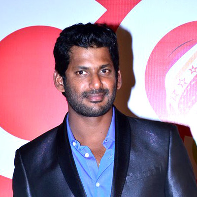 Vishal at the official launch ceremony of the fourth season of Celebrity Cricket League